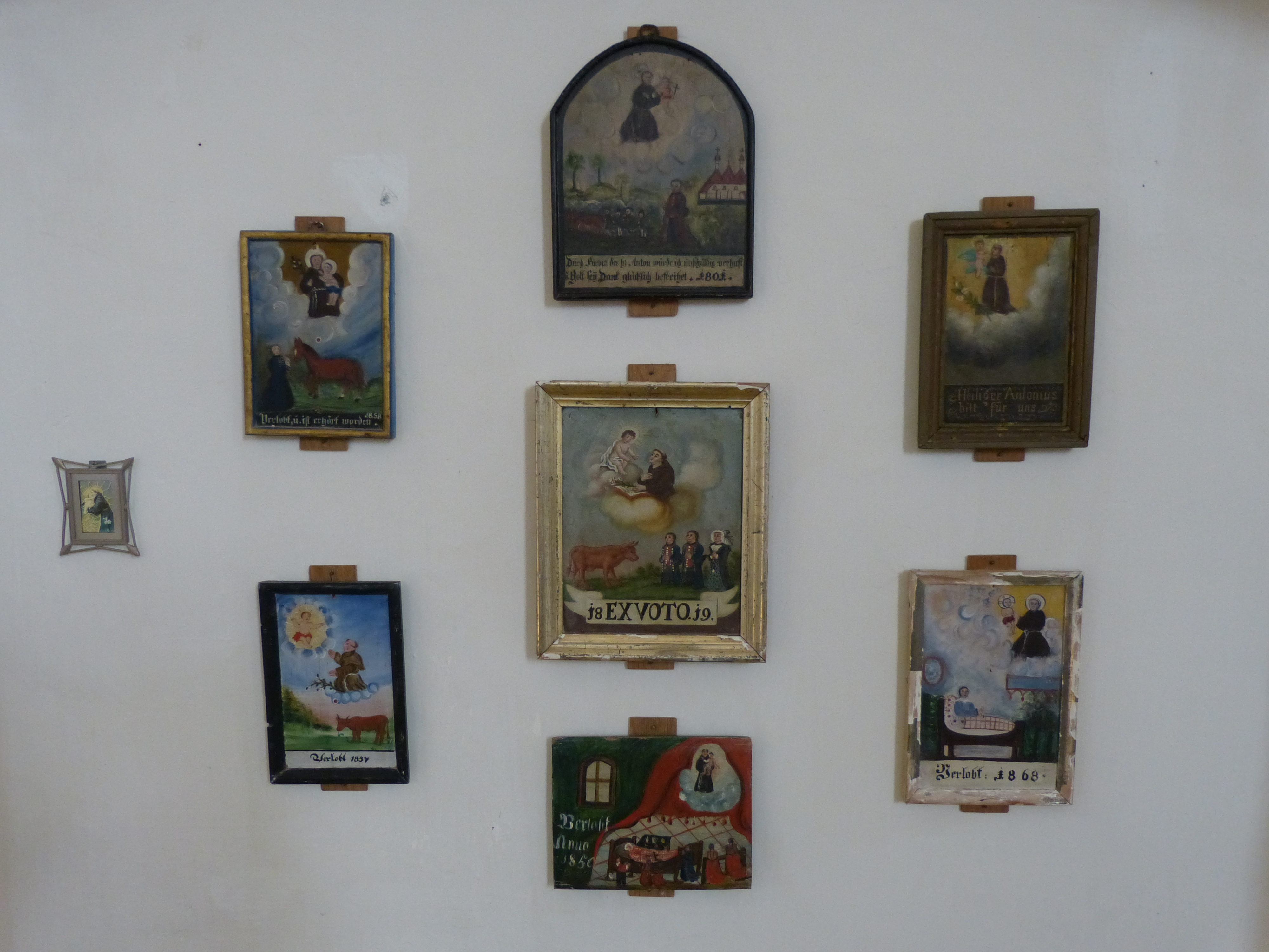 St. Antonius of Padua in Berg near Markt Wald, Landkreis Unterallgäu, Bavaria